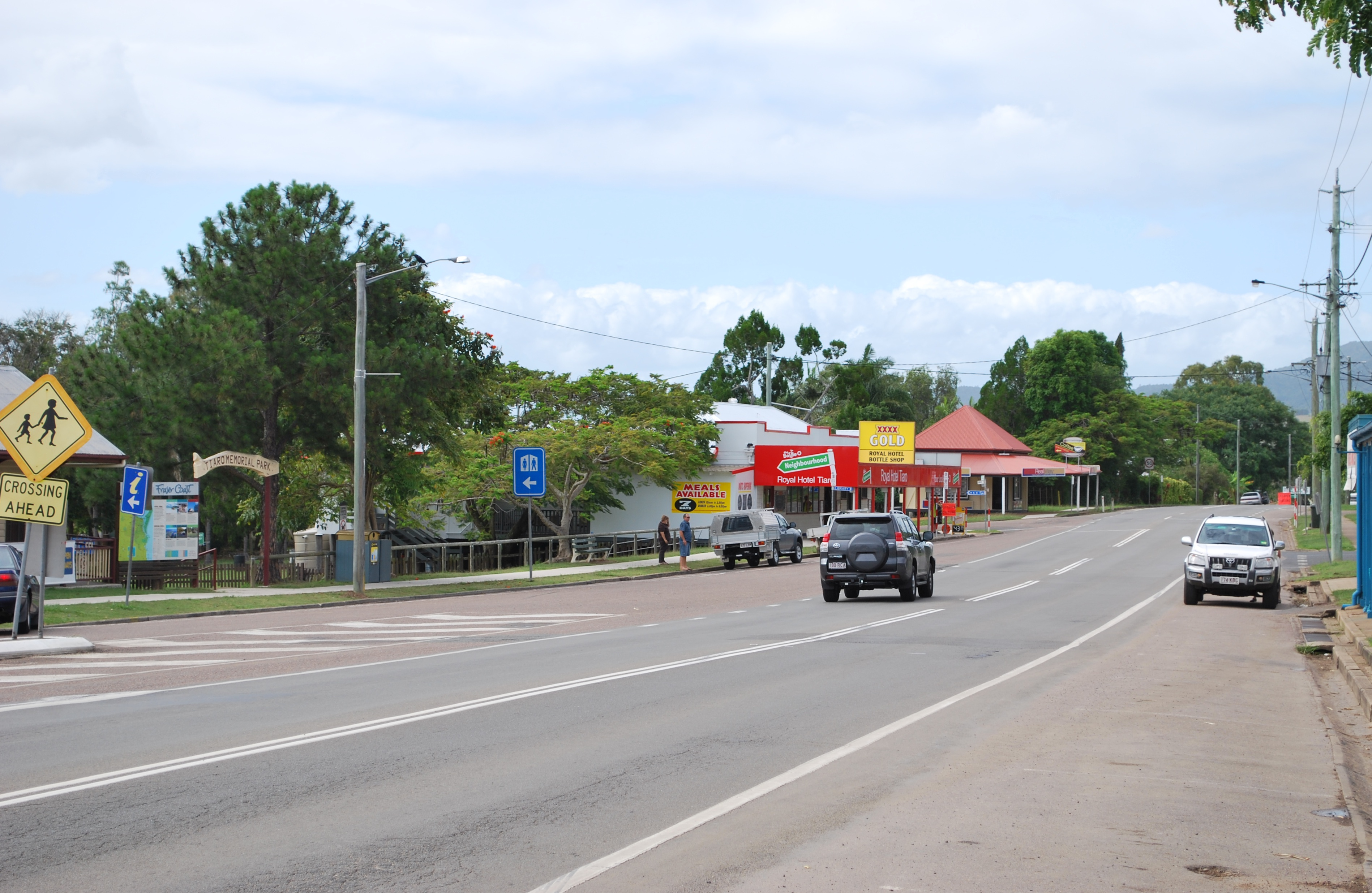 The Bruce Highway as it passed through Tiaro, Queensland